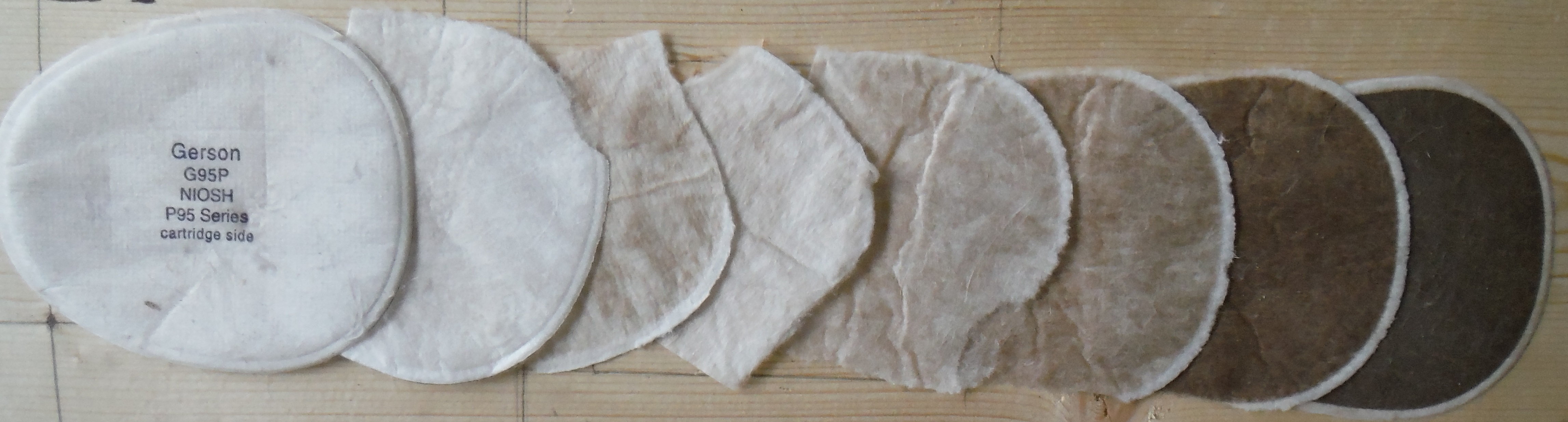 Cross section of a used filter pad from a half-face NIOSH P95 respirator. I wore this for about a month or so while fabricating structural steel (welding, grinding, burning, sawing, drilling, degreasing with xylene and spray painting). They told me I didn't need one, but from that shade of brown it looks like my insubordination was justified